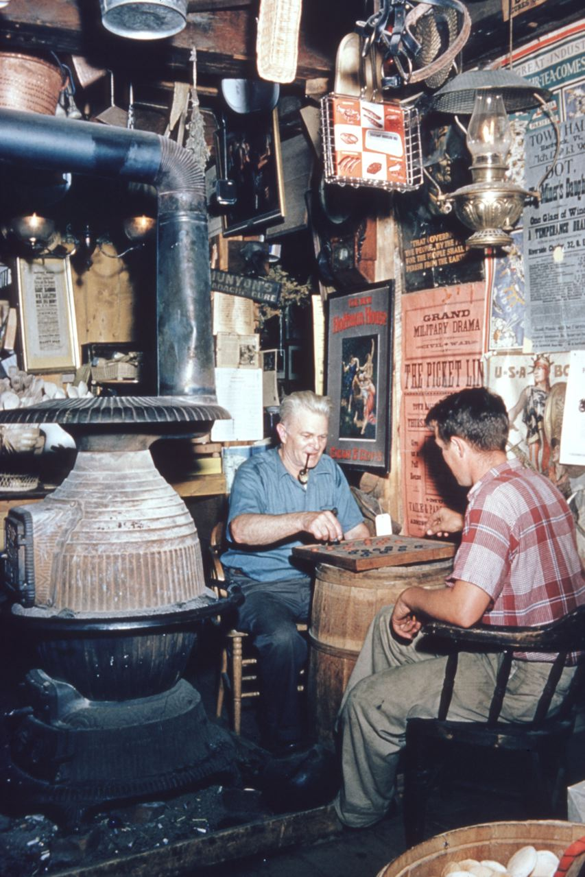 An old time look inside the Vermont Country Store.